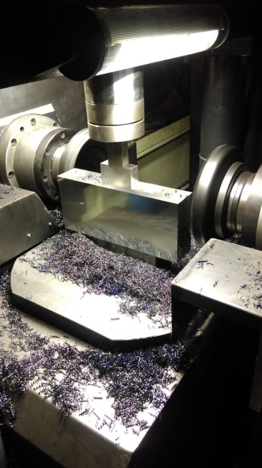 double side horizontal cnc milling machine's result